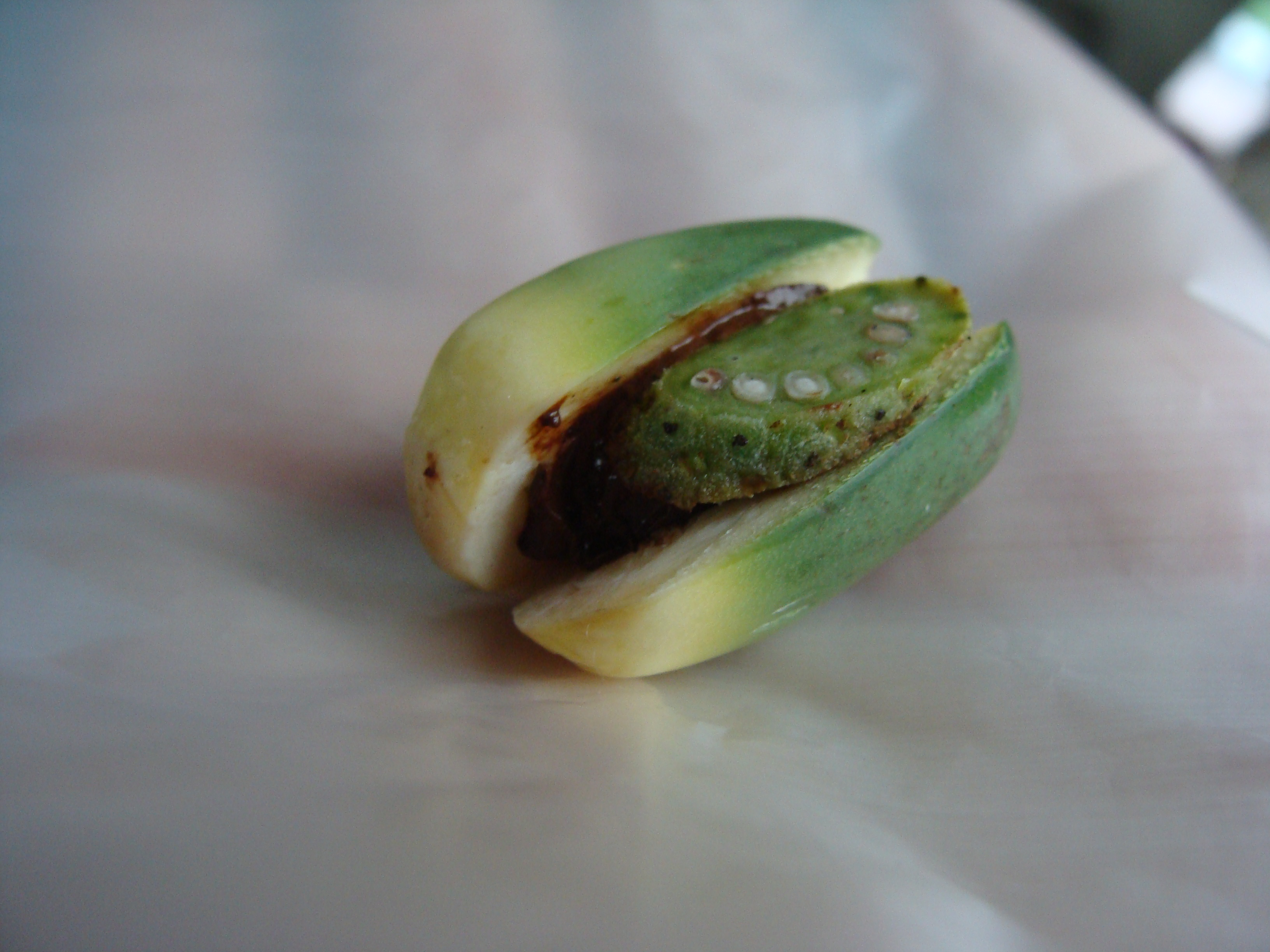 Areca nut ready to be eaten